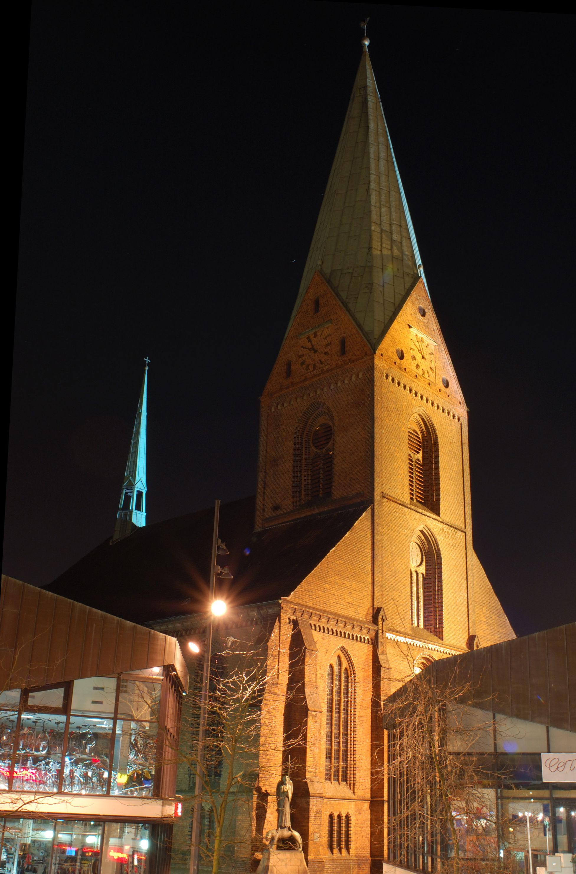 Nikolaikirche Kiel from the 13th century, the oldest building of the town.